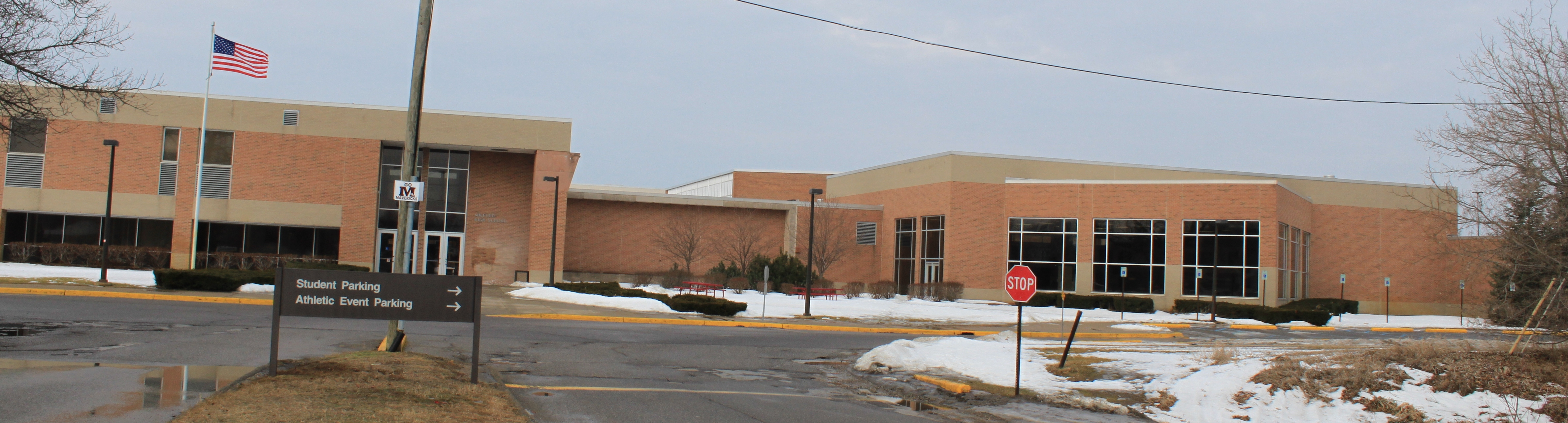 Milford High School, 2380 South Milford Road, Highland, Michigan